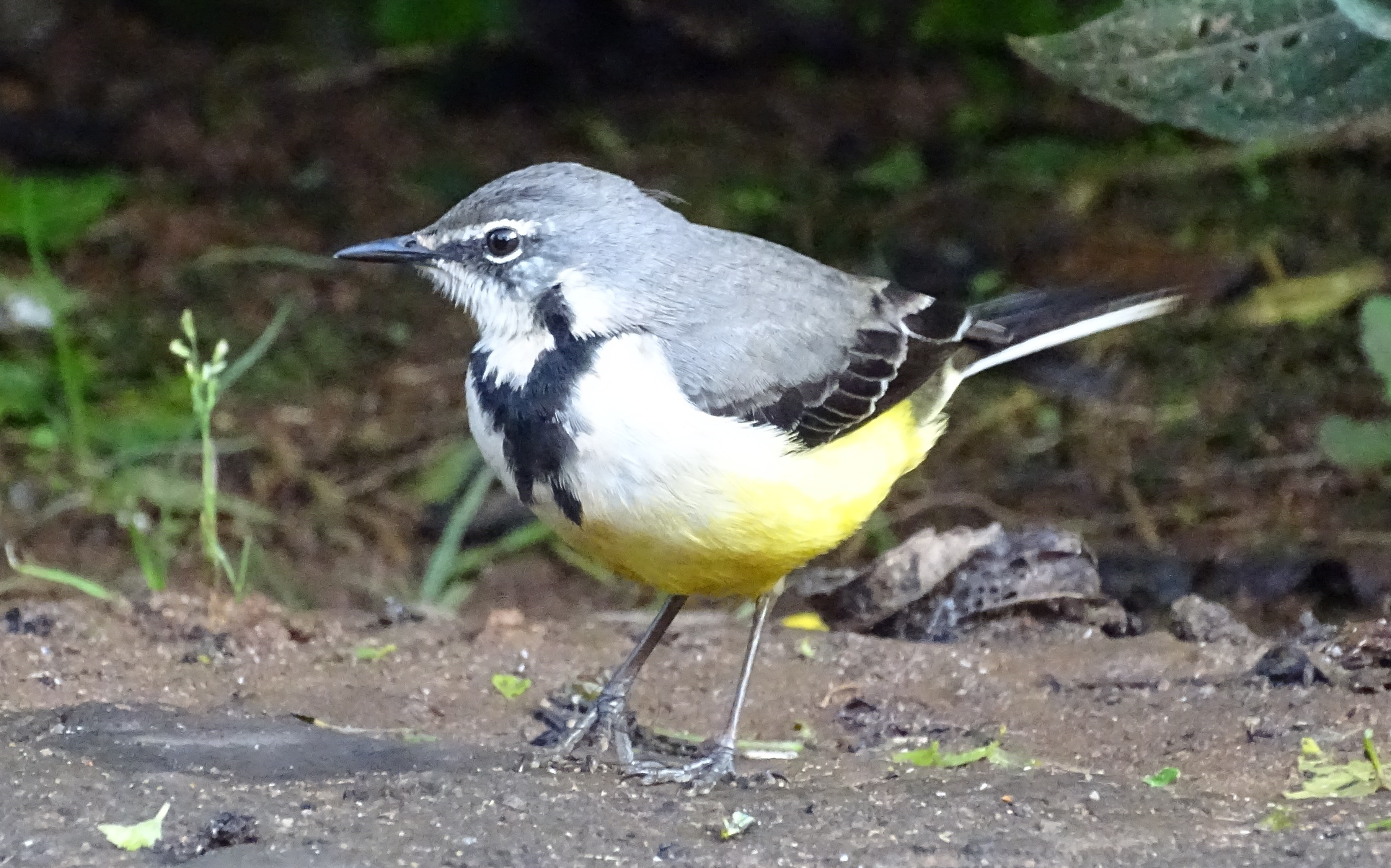 Madagascan Wagtail (Motacilla flaviventris)